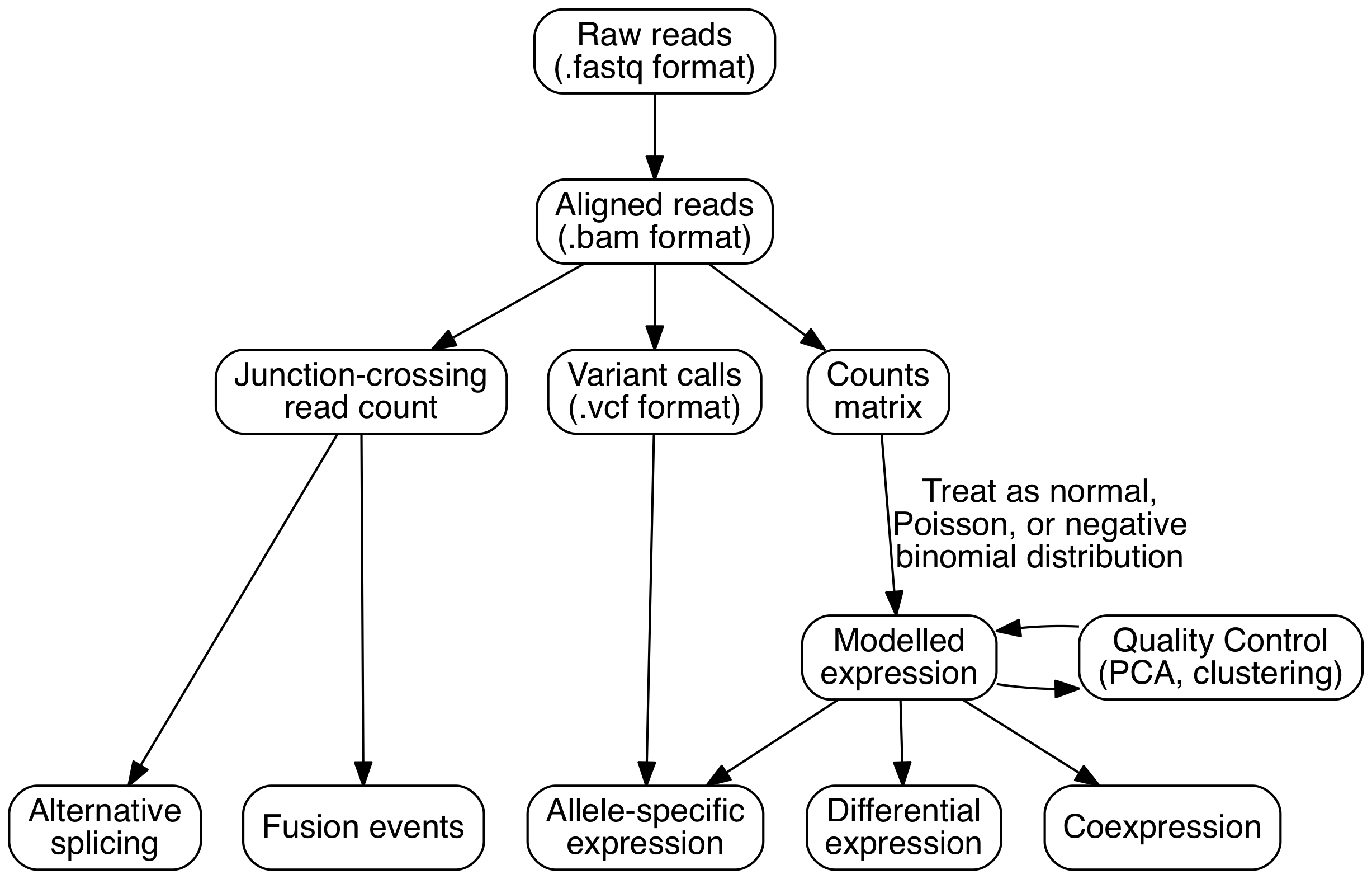 A typical RNASeq workflow as of Aug, 2016